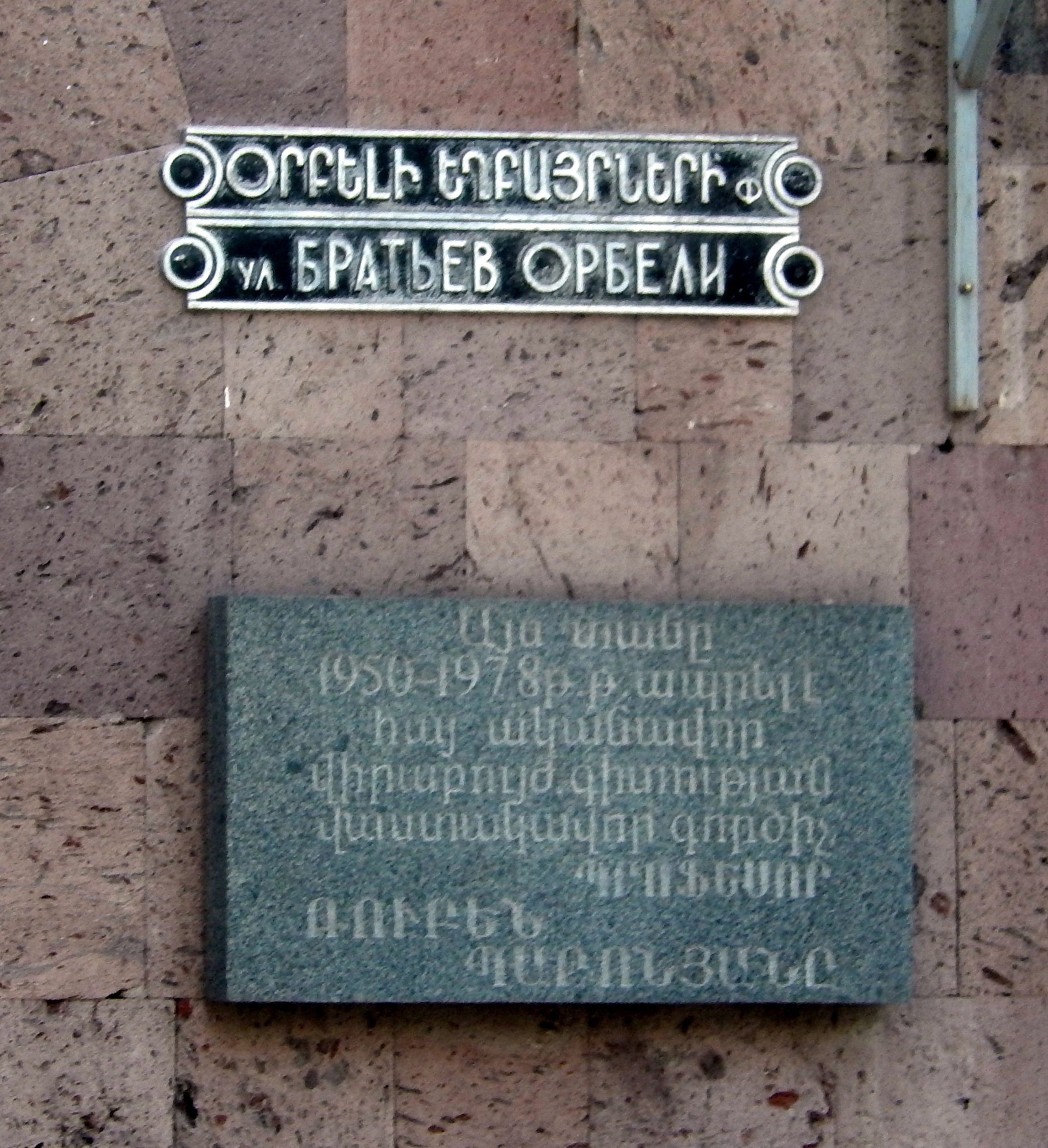 Ruben Paronyan's plaque in Yerevan